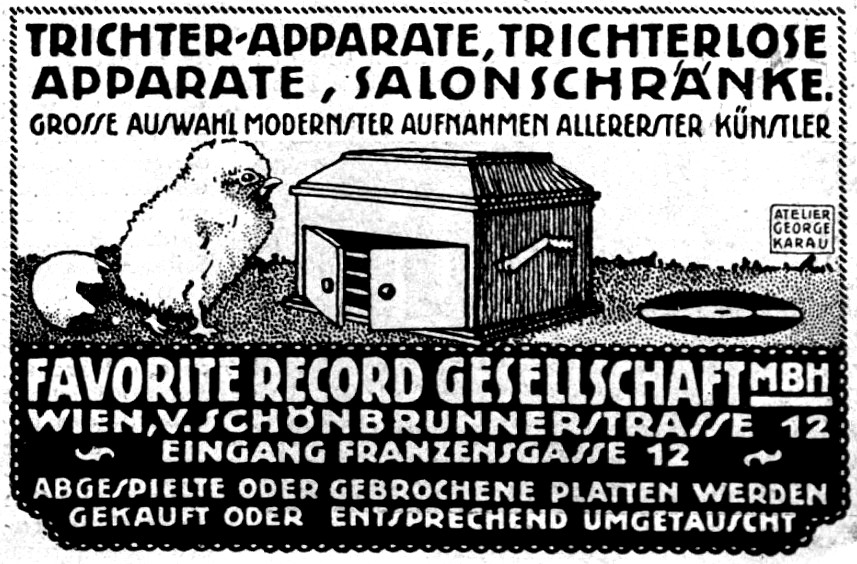 Advertisement for the company Favorite Record Gesellschaft, Vienna.